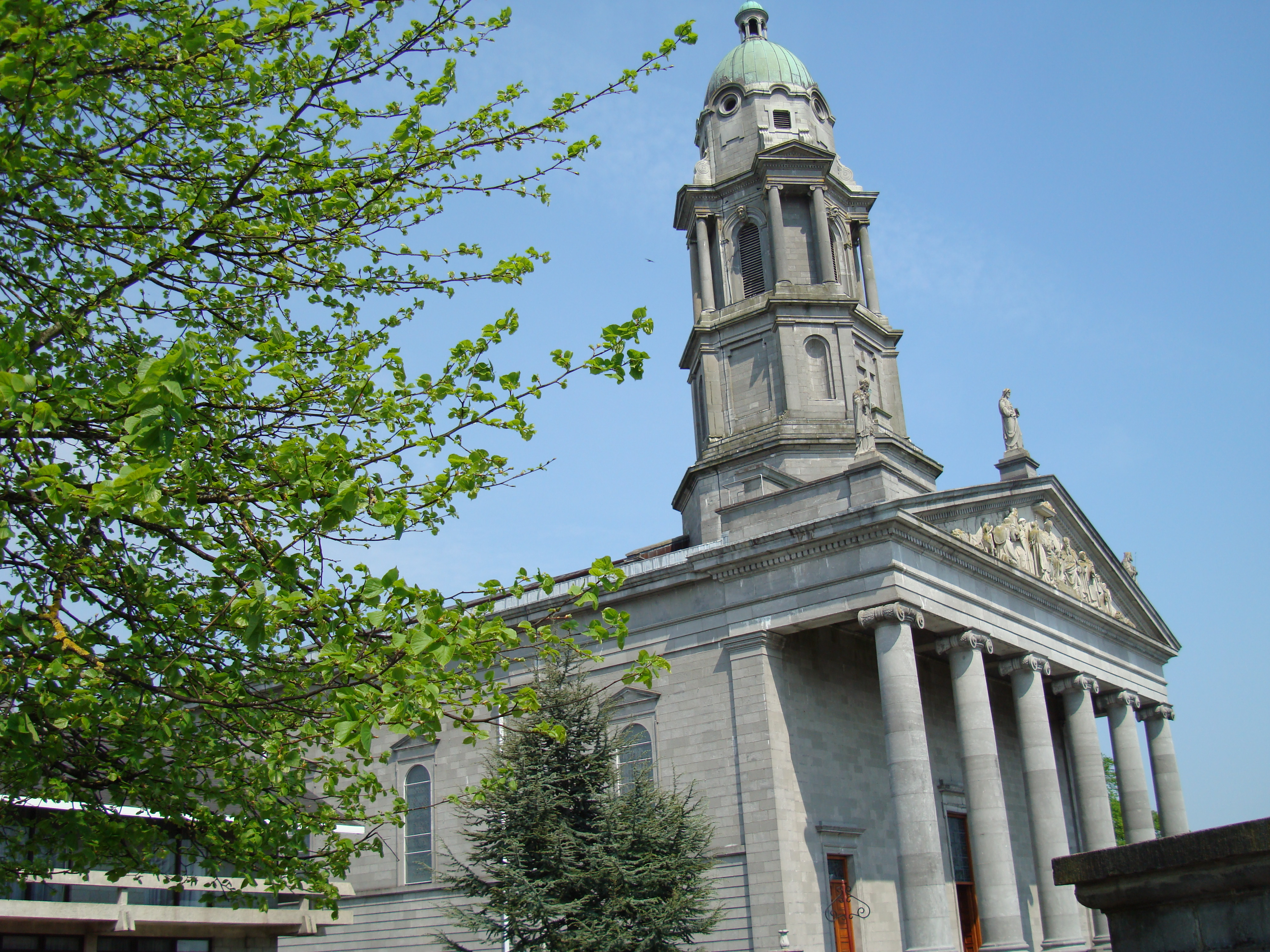 Photograph of Longford Cathedral, Co. Longford, Republic of Ireland